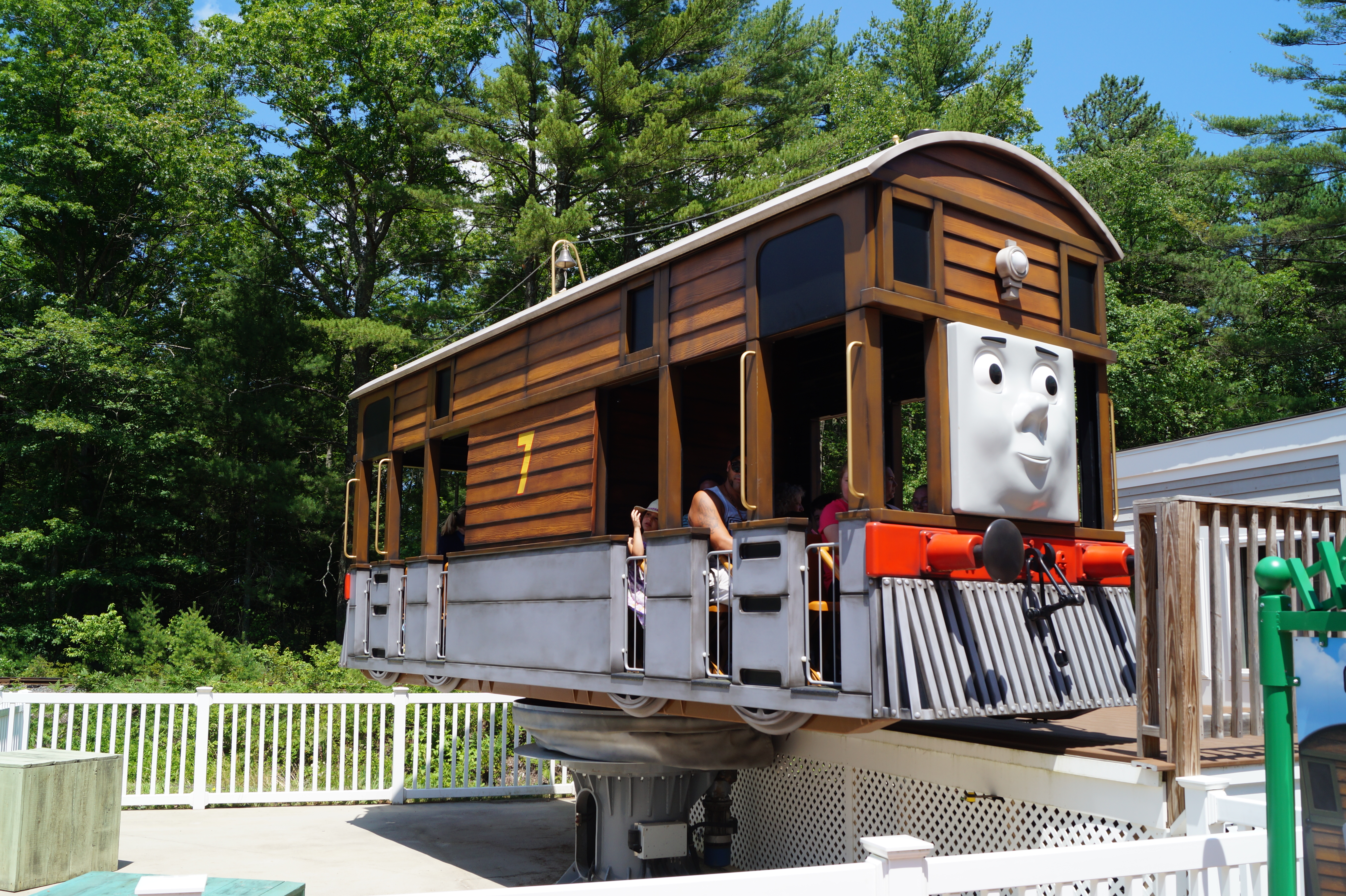 Edaville Railroad